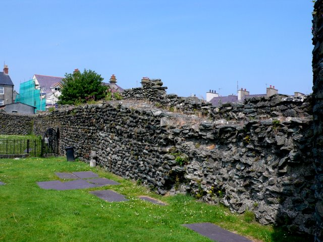 Roman fort at Holyhead View north along the inside of the Roman fort walls